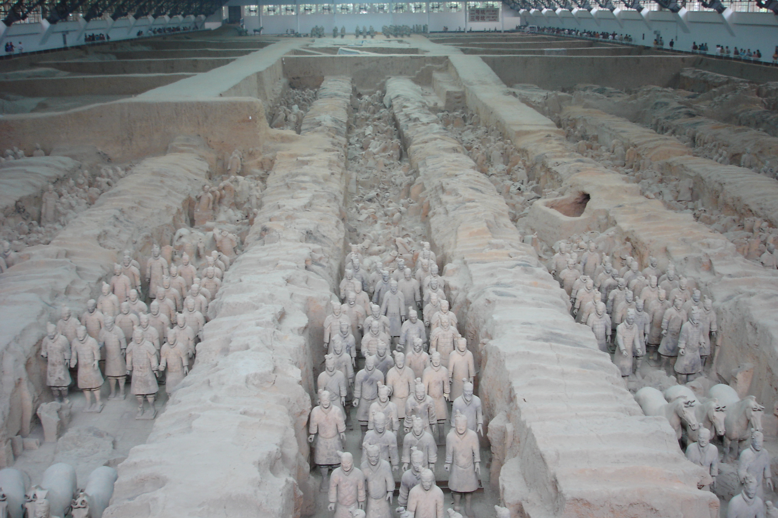 The Terracotta Army near Xian (Shaanxi, People's Republic of China).